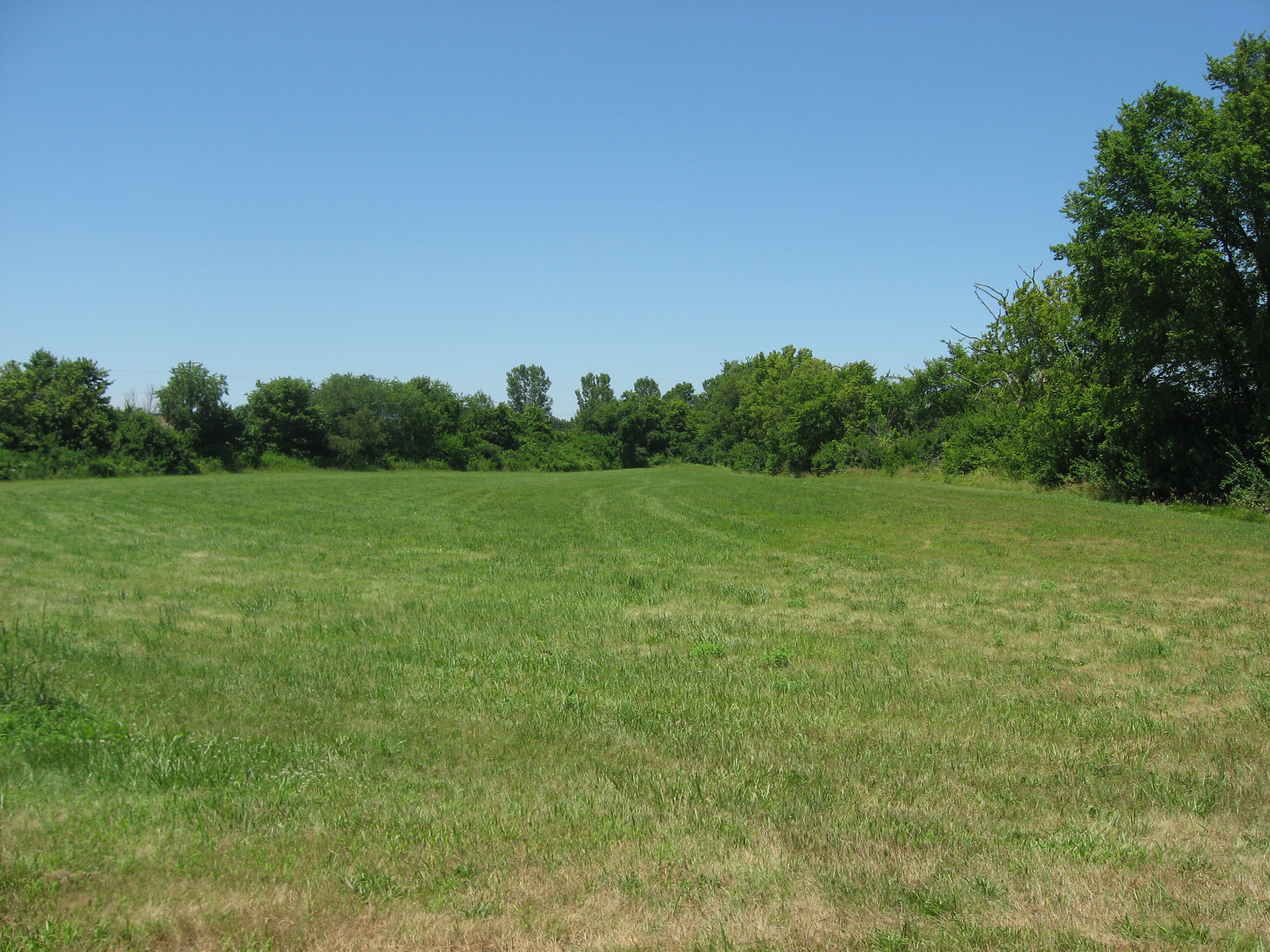 Fields in the interior of the High Banks Works, a set of earthworks built by Hopewellian peoples above the Scioto River southeast of Chillicothe in Liberty Township, Ross County, Ohio, United States. Today, the surviving earthworks are located primarily in the woods on the edge of the field. The complex is listed on the National Register of Historic Places, and it has recently become part of the Hopewell Culture National Historical Park.